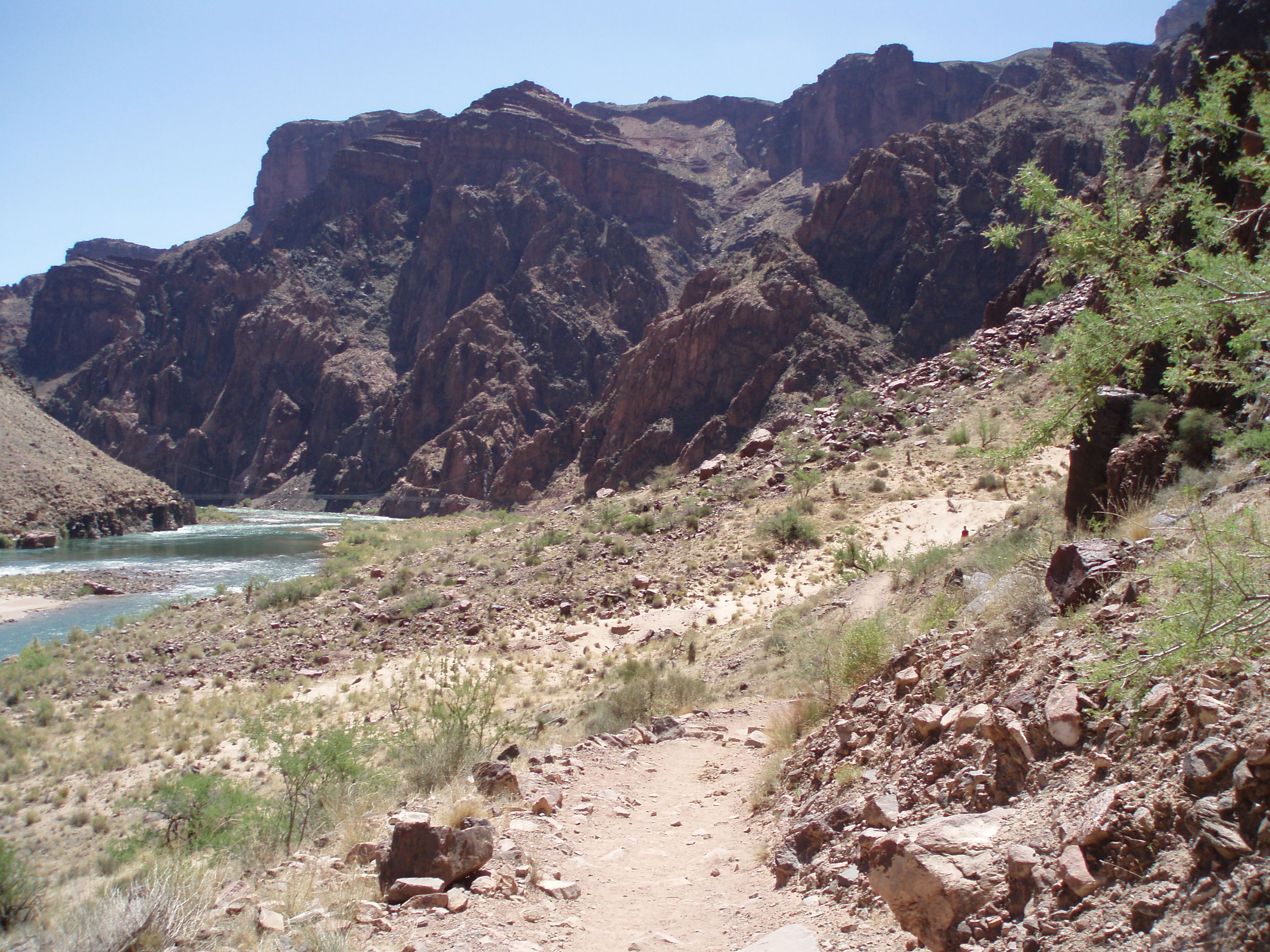 Sand dunes along River Trail in Grand Canyon National Park. Photo taken 20 May 2006.